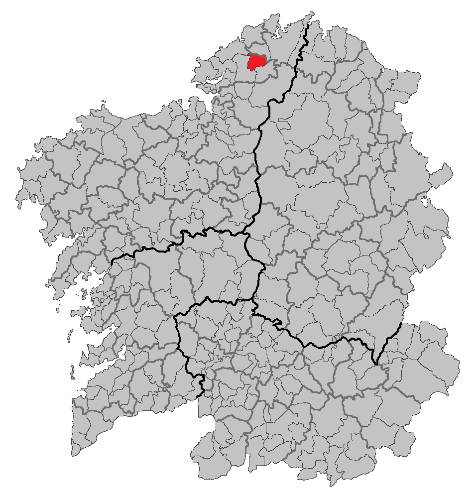 Location map of Moeche, A Coruña, Galicia